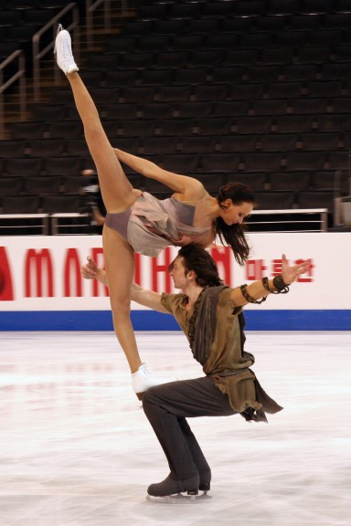 Oksana Domnina & Maxim Shabalin at the 2009 World Figure Skating Championships.